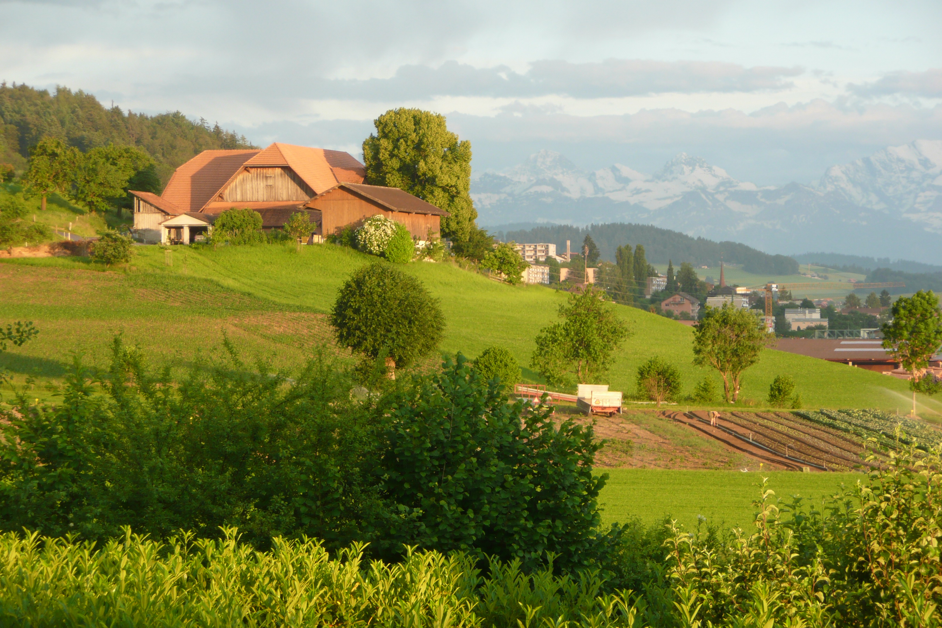 Vechigen farmhouse in the background view of Worb